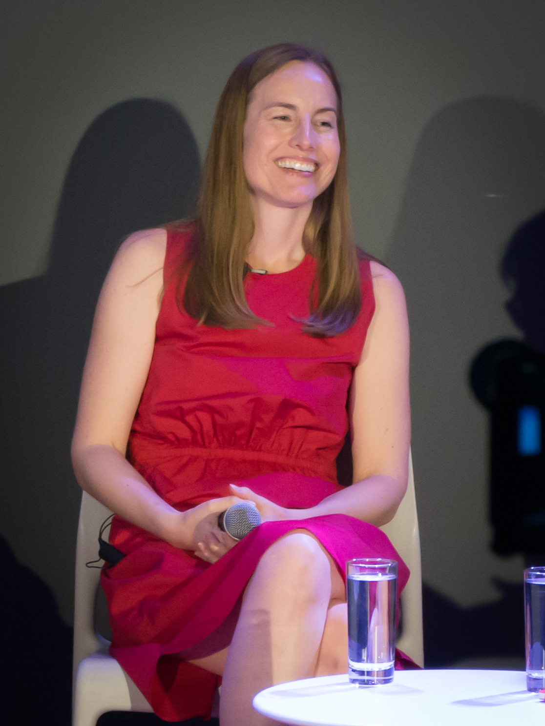 Anu Partanen, author of the "The Nordic Theory of Everything," speaks at the New America Foundation in New York City, 2016